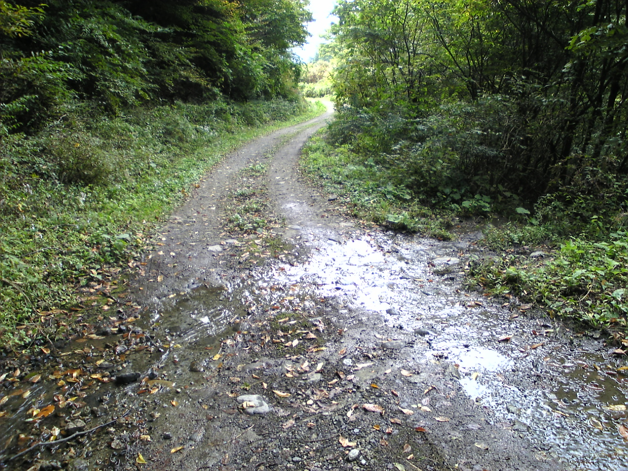 The Yamanashi Prefectural Road Route 113 in Kofu City